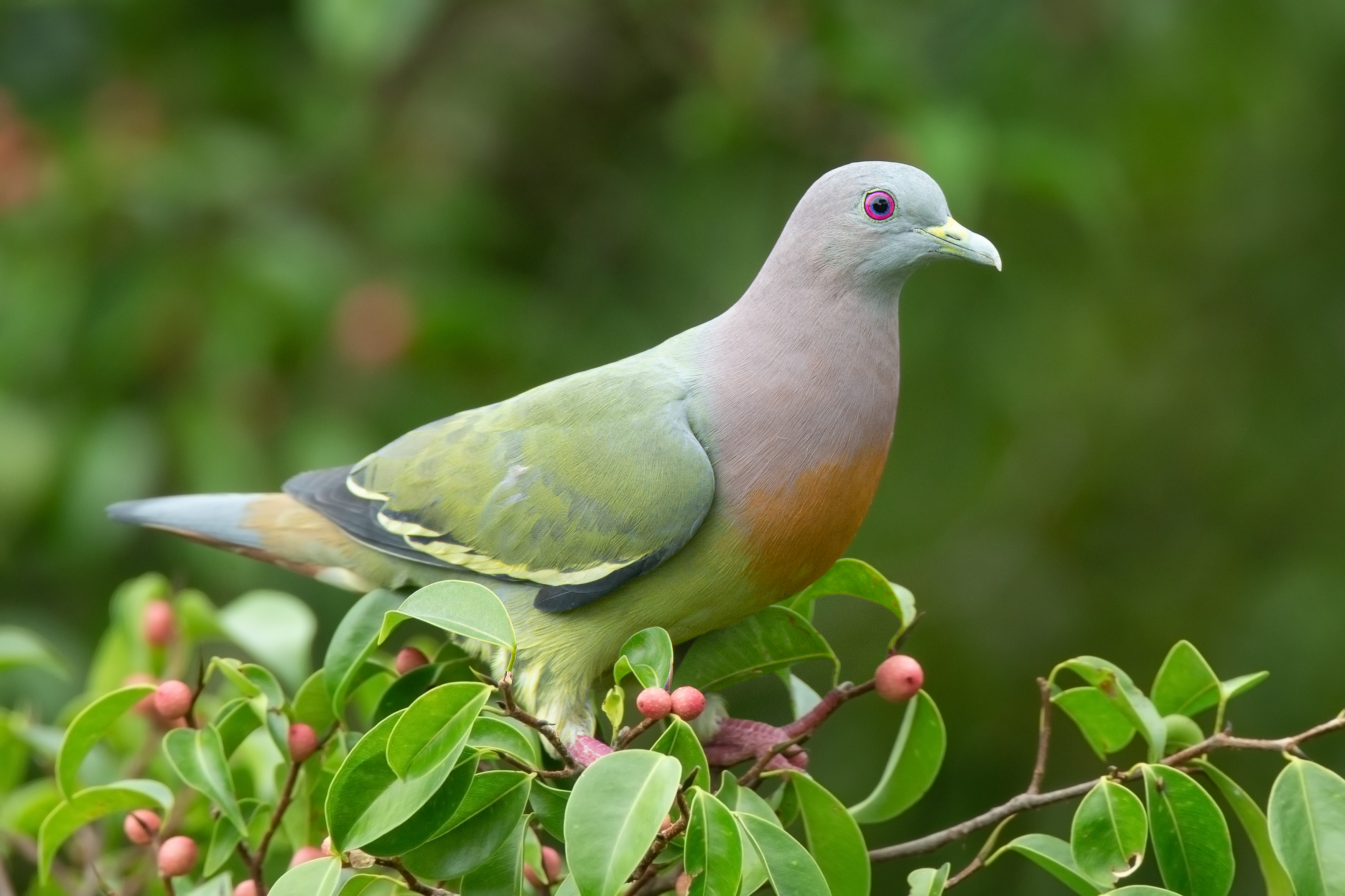 Pink-necked Green Pigeon (Treron vernans) male. Taken at Kent Ridge Park, Singapore.